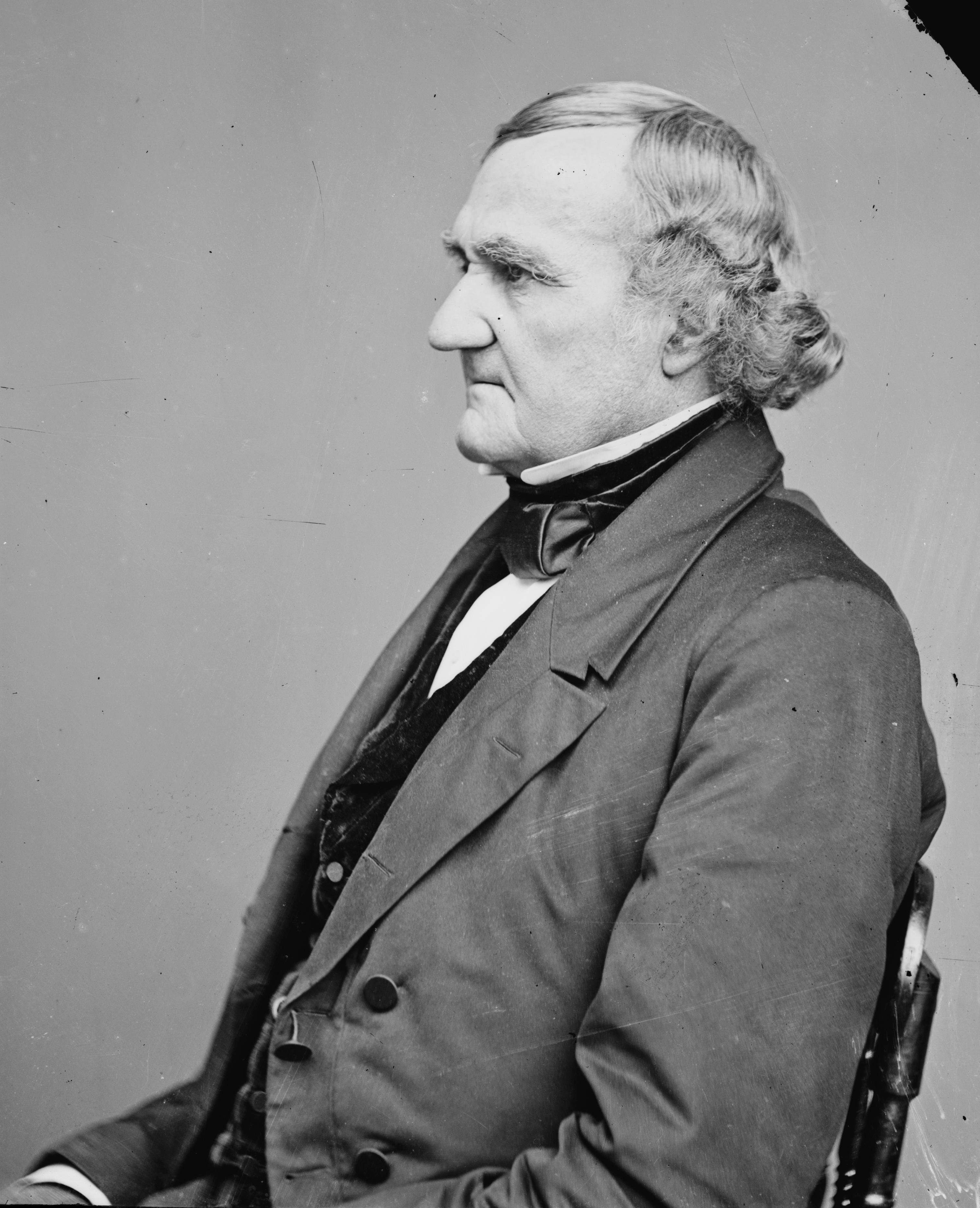 John Catron. Library of Congress description: "Judge J. Catron".